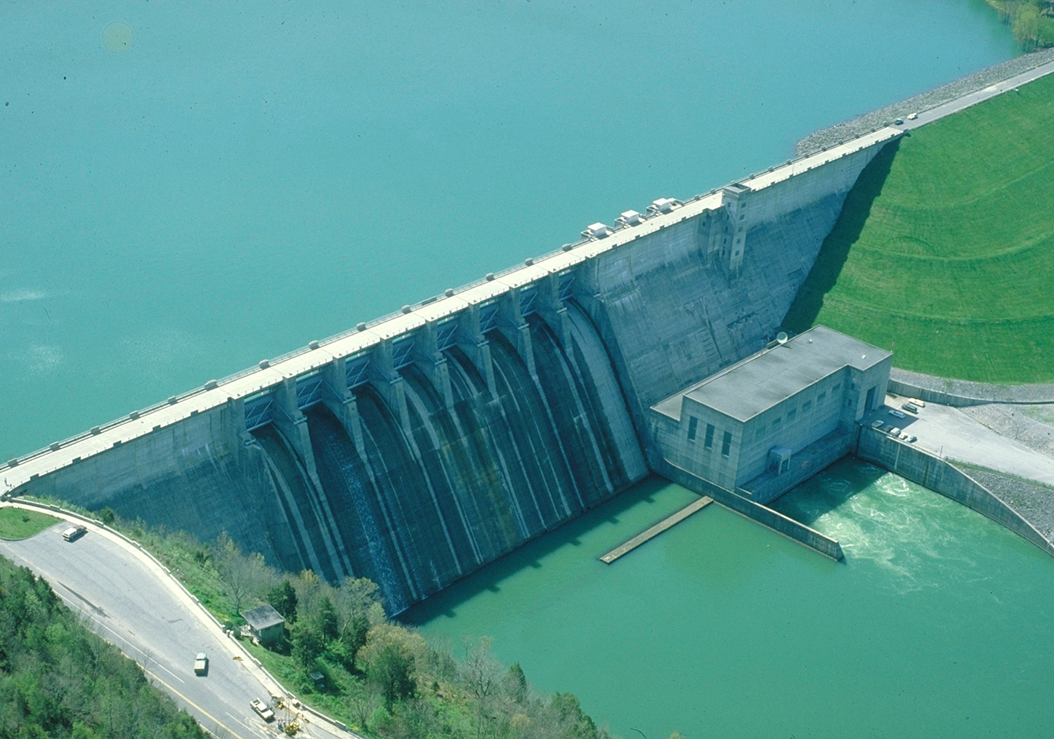 Center Hill Dam near Cookeville, Tennessee, USA. The dam impounds Center Hill Lake, 64 miles (103 km) long and covering an area of 18,220 acres (74 km²). The dam provides hydroelectric production and flood control in central Tennessee.